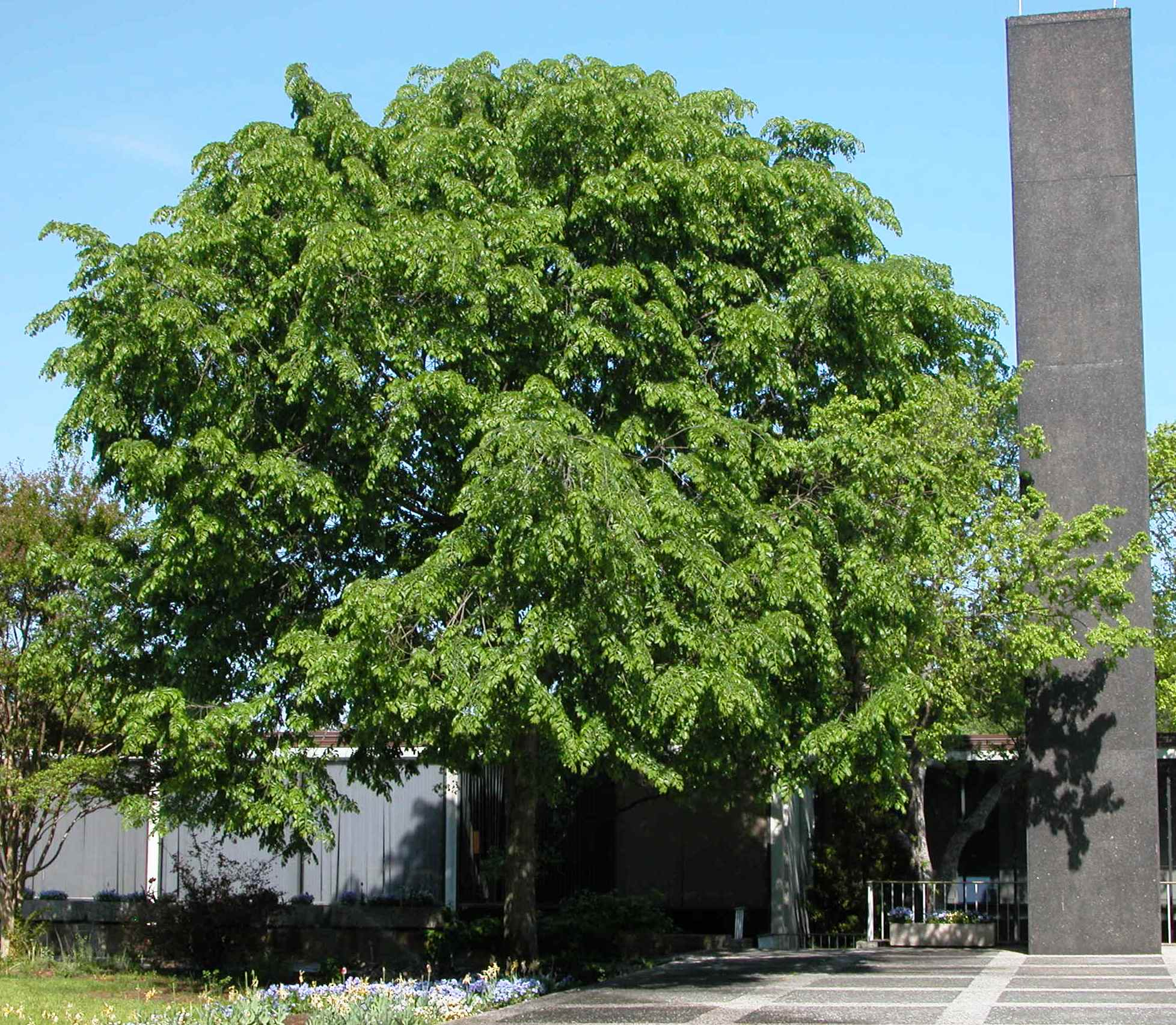 Photograph of Ulmus davidiana var. 'Prospector' taklen by Ms Susan Bentz, US National Arboretum.